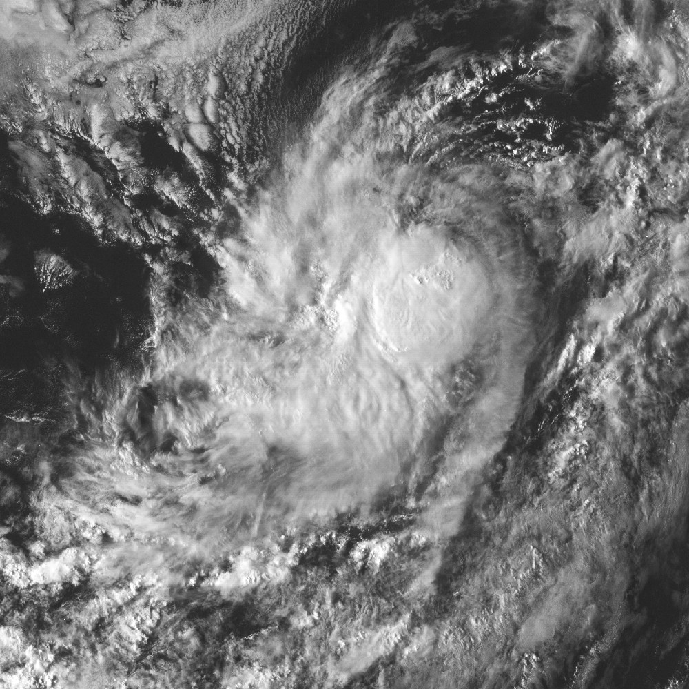 This image shows Tropical Storm Miriam in the Pacific Ocean at 0000 UTC on September 17, 2006. The storm's maximum sustained winds at the time were around 45 mph and the minimum central pressure was approximately 1002 mb.